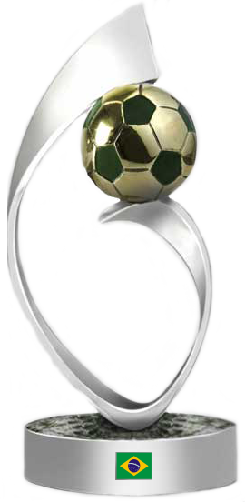 Troféu do Campeonato Brasileiro - Série D 2011